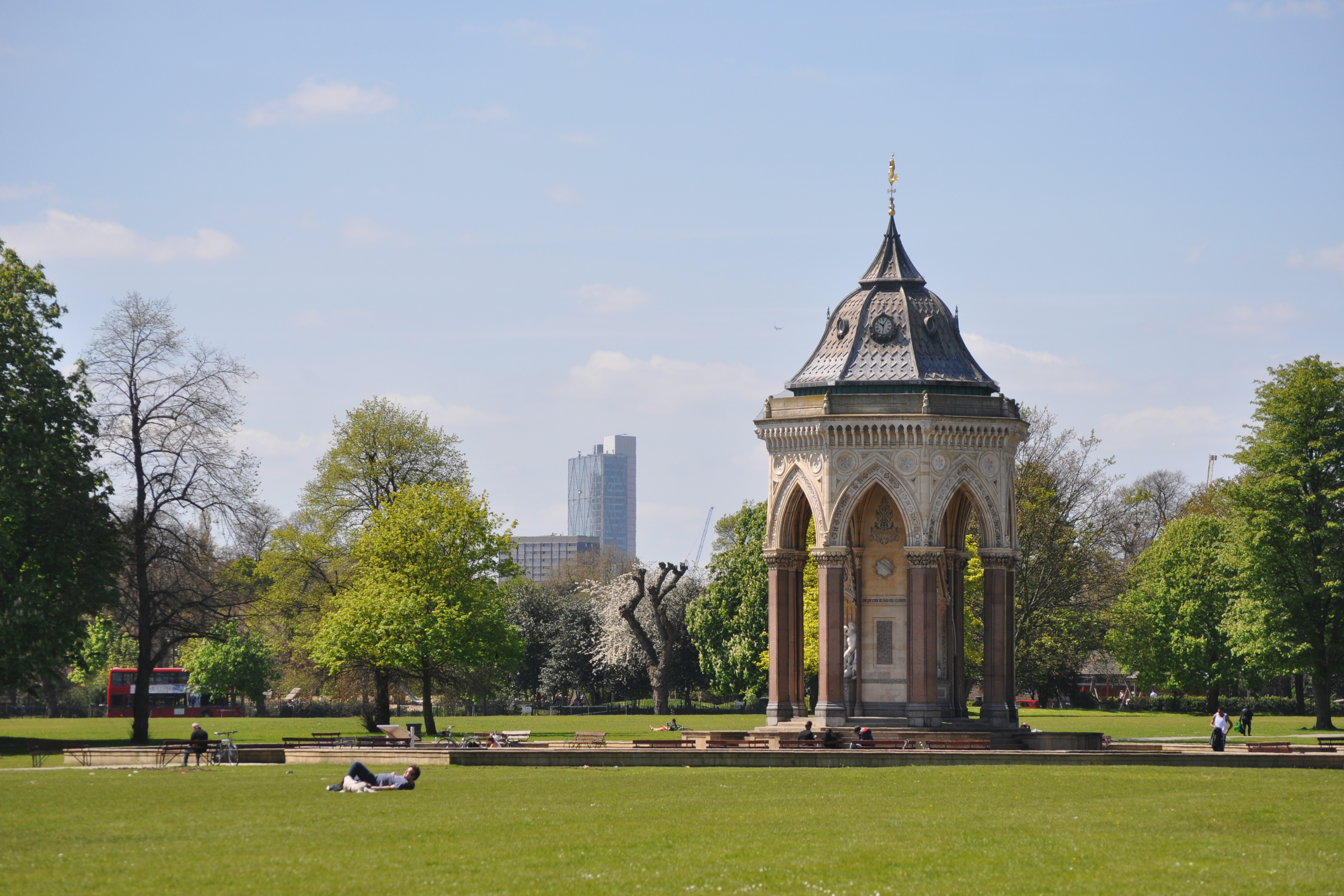 Baroness Burdett Coutts Drinking Fountain Wikidata has entry Q17531738 with data related to this item.